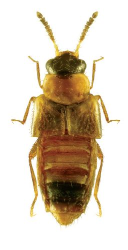 Dorsal view of Gyrophaena (G.) laetula (apical part of abdomen removed).